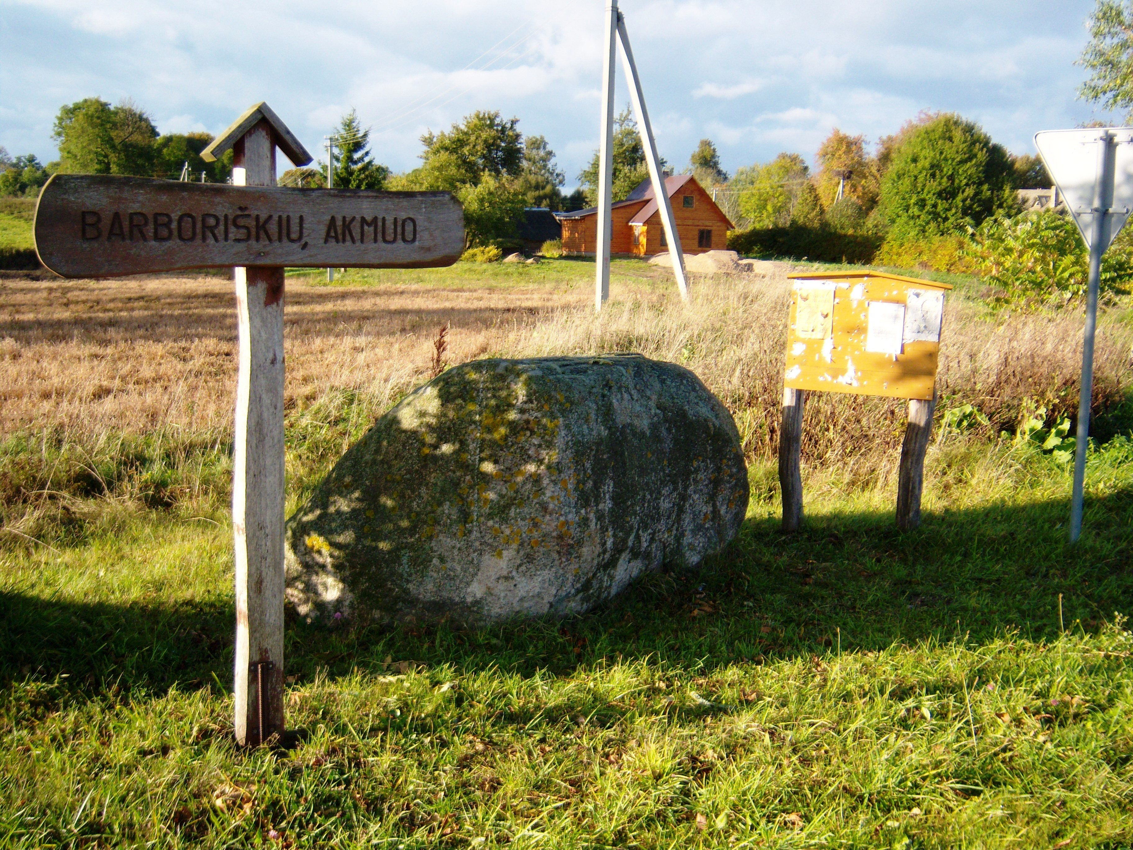 Barboriškės stone, Elektrėnai Municipality, Lithuania